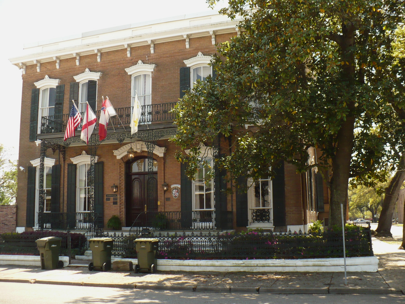 407 Conti Street (Martin Horst House) within the Church Street East Historic District in Mobile, Alabama.